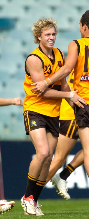 Mitch Duncan playing for WA in the 2009 U/18 AFL National Championships